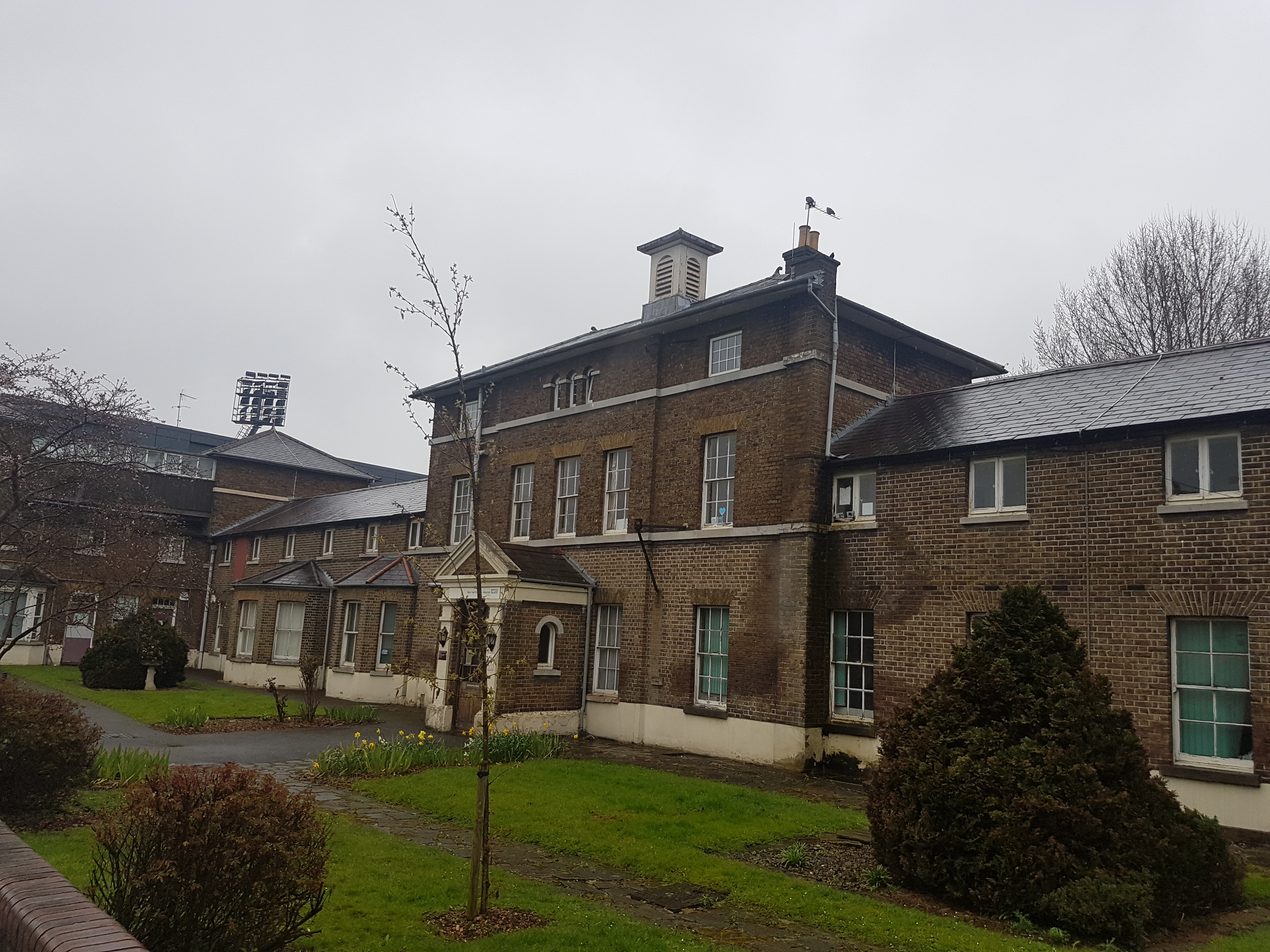 Sycamore House, Watford